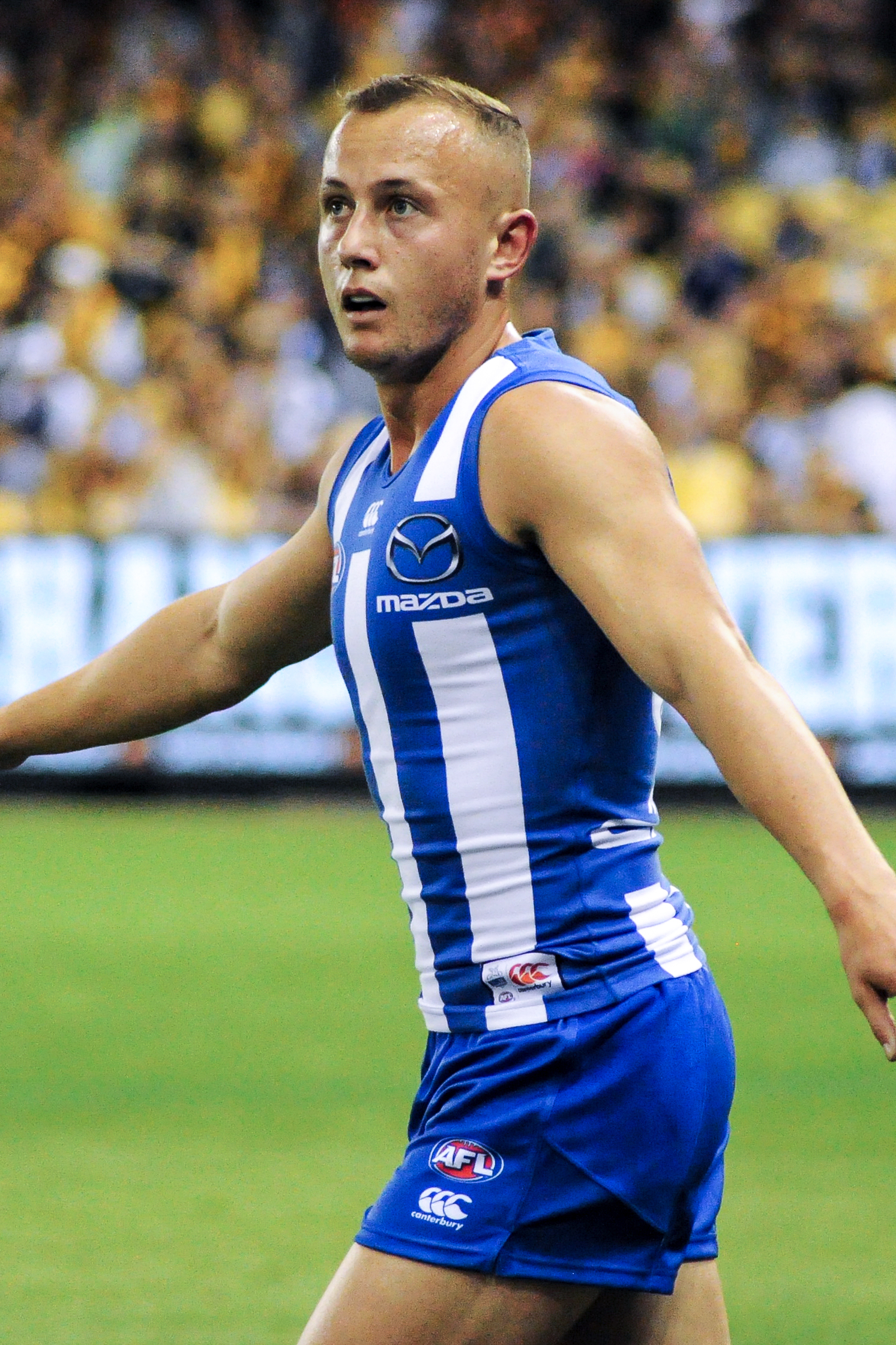 Billy Hartung during the AFL round five match between North Melbourne and Hawthorn on Sunday, 22 April 2018 at Etihad Stadium in Melbourne, Victoria.